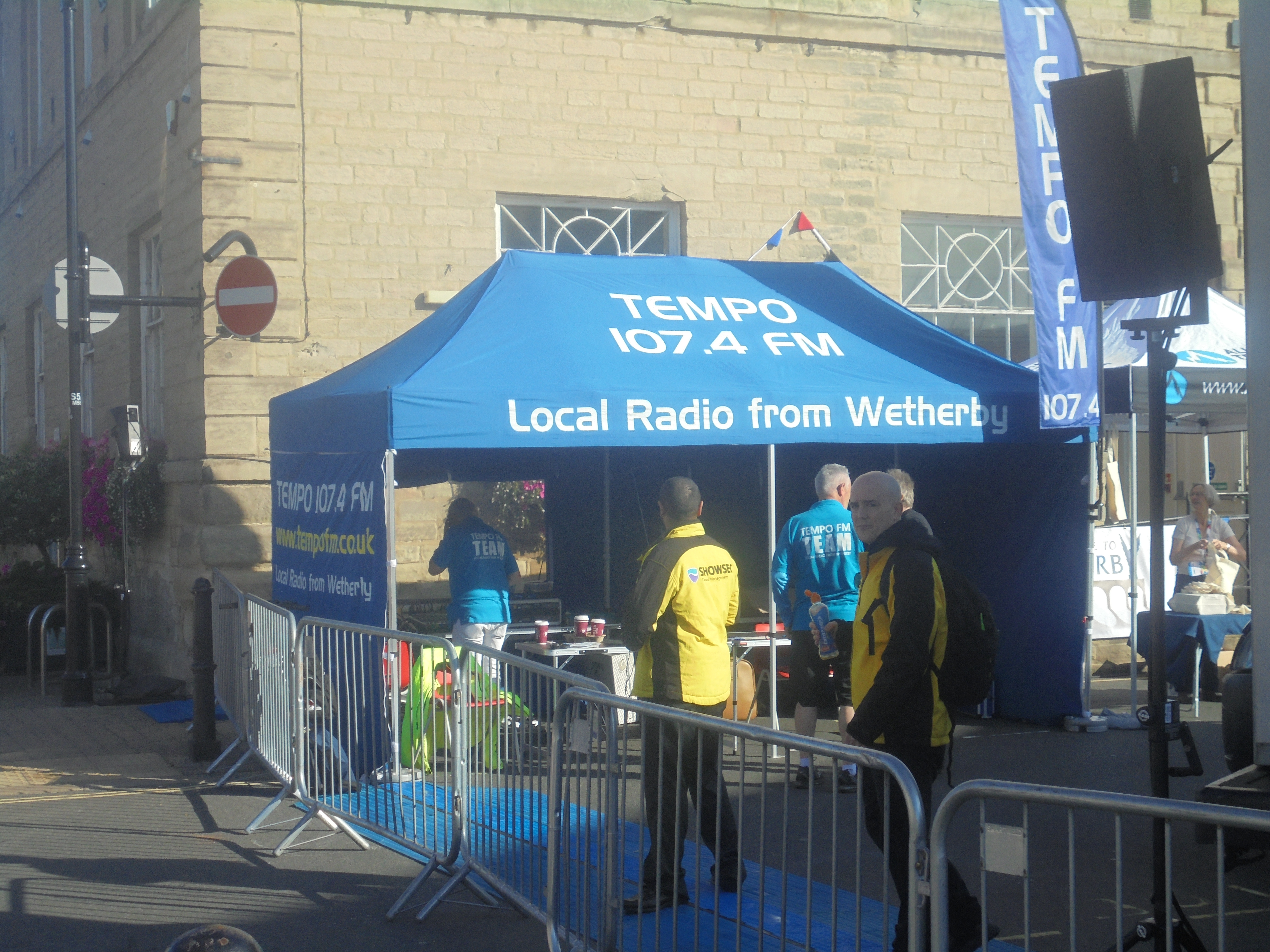 Tempo FM tent by Wetherby Town Hall on the Market Place during the 2019 UCI Para-cycling race start, Wetherby, West Yorkshire. Taken on the morning of Saturday the 21st of September 2019.